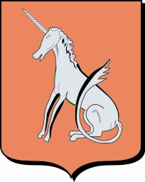 Ancient coat of arms of Hyon.